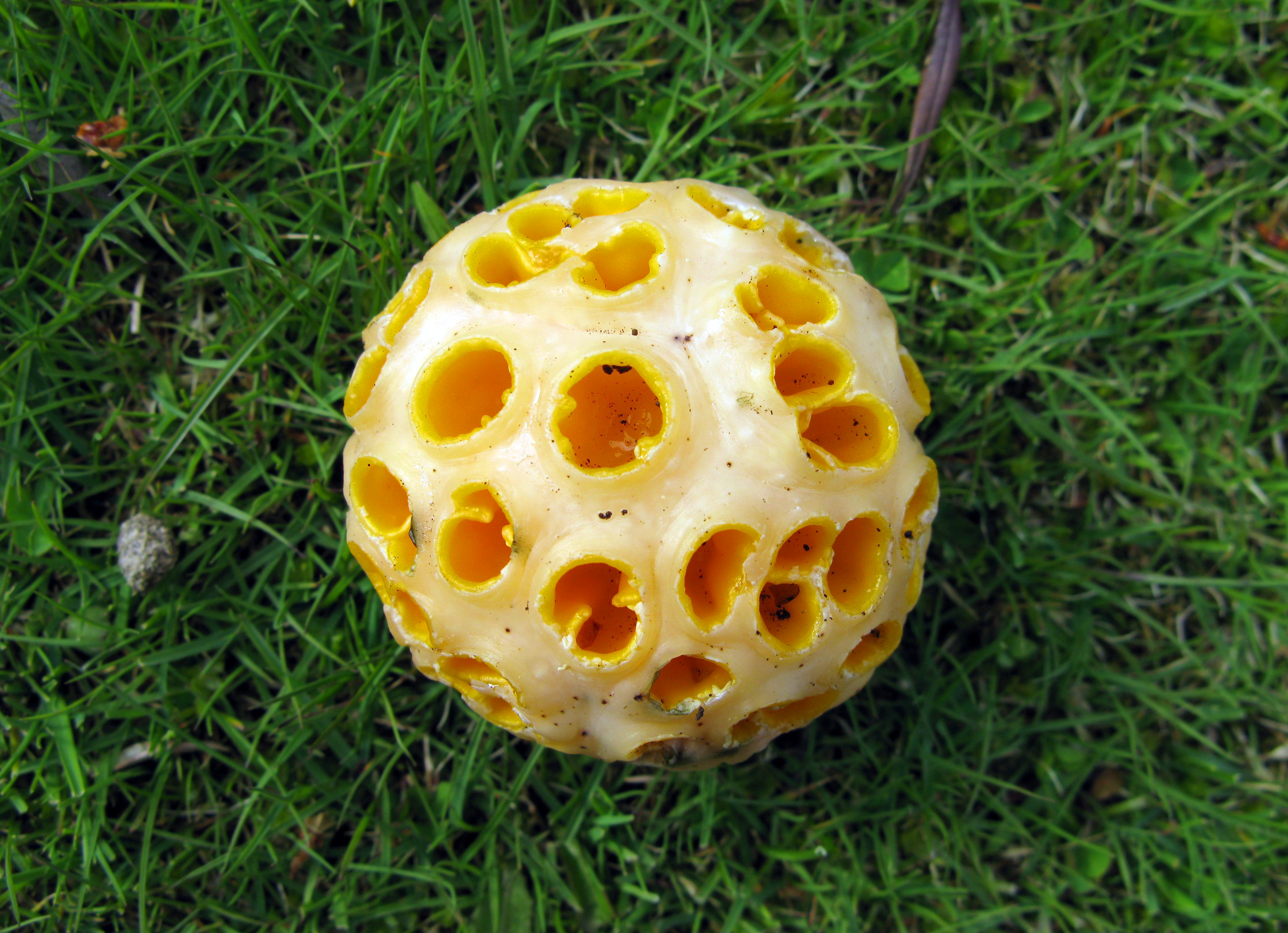 A Cyttaria hariotii fruiting body.